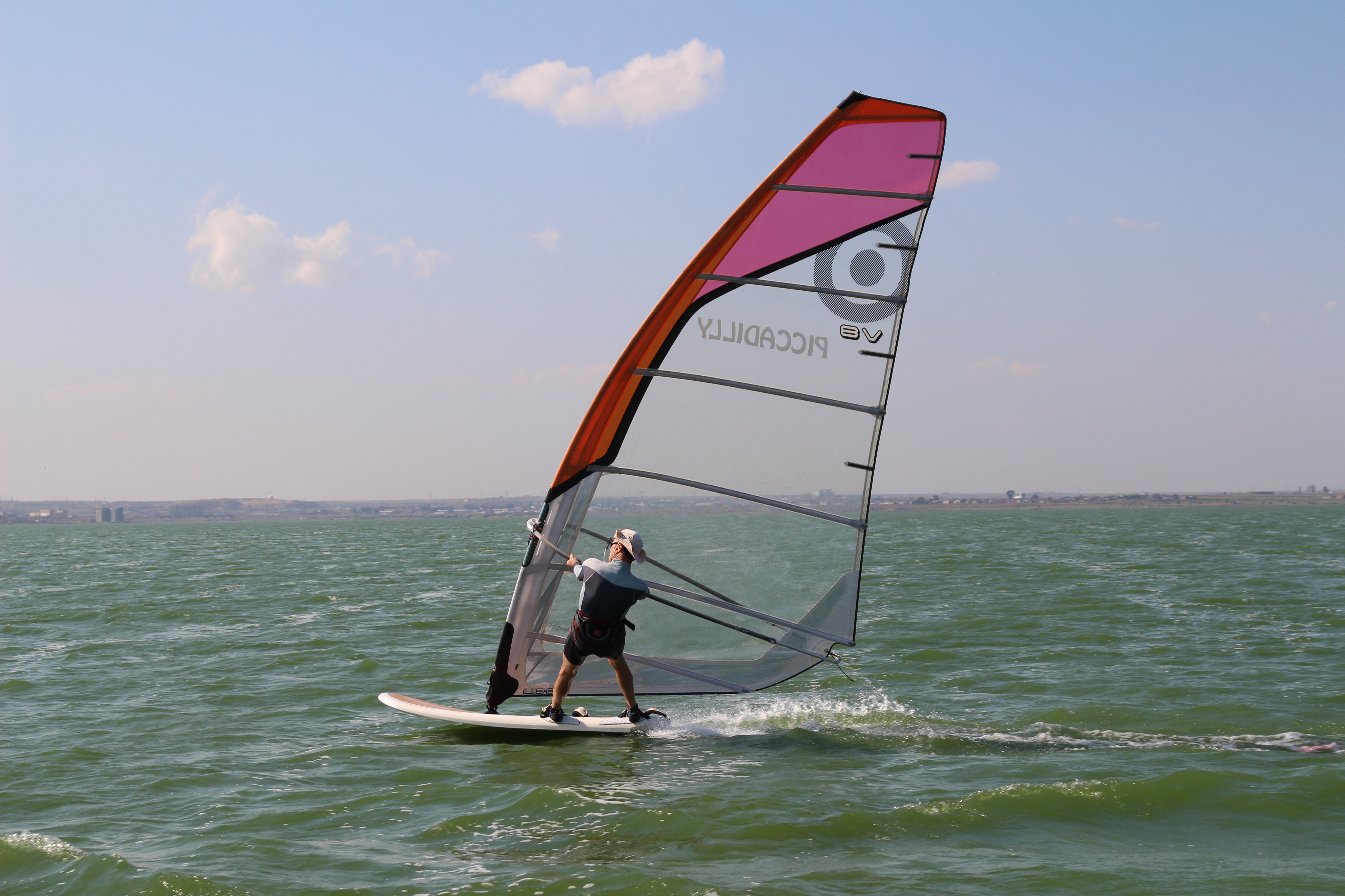 Windsurfing formula